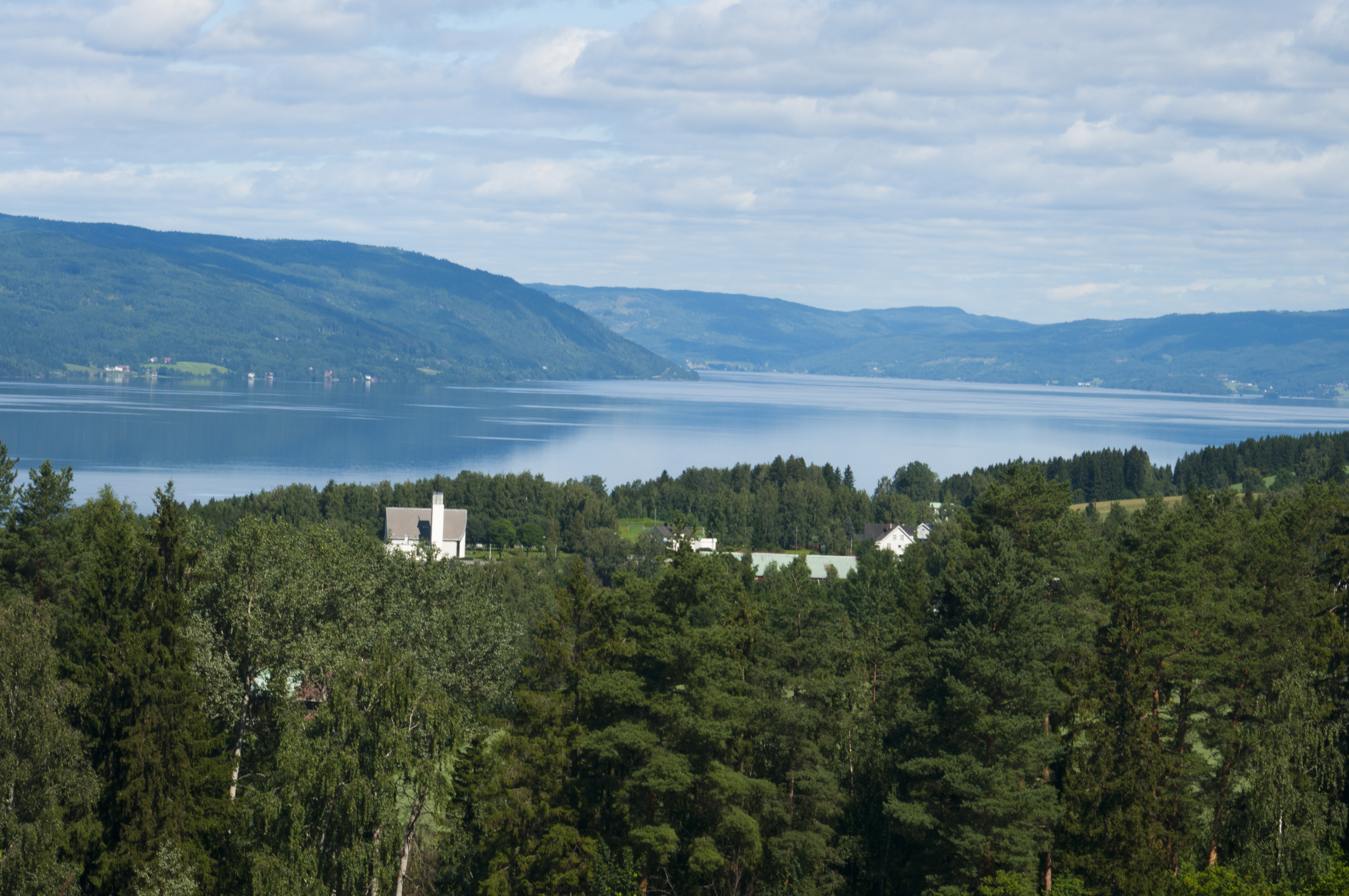 Grymyr is situated near Lake Randsfjord in Oppland county, NorwayNorsk bokmål: Grymyr ligger ved Randsfjorden i Oppland fylke